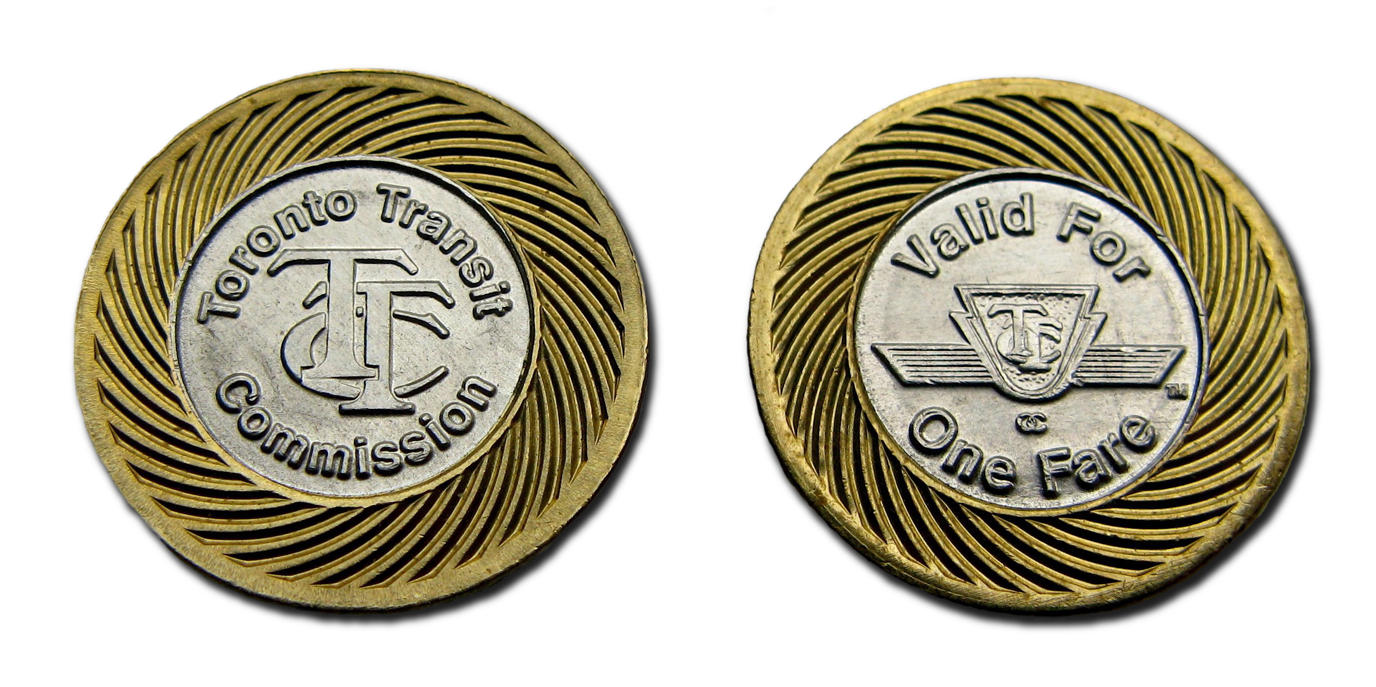 Obverse and reverse sides of single-ride token for the Toronto Transit Commission. This design of token replaced older ones and was introduced in November 2006.